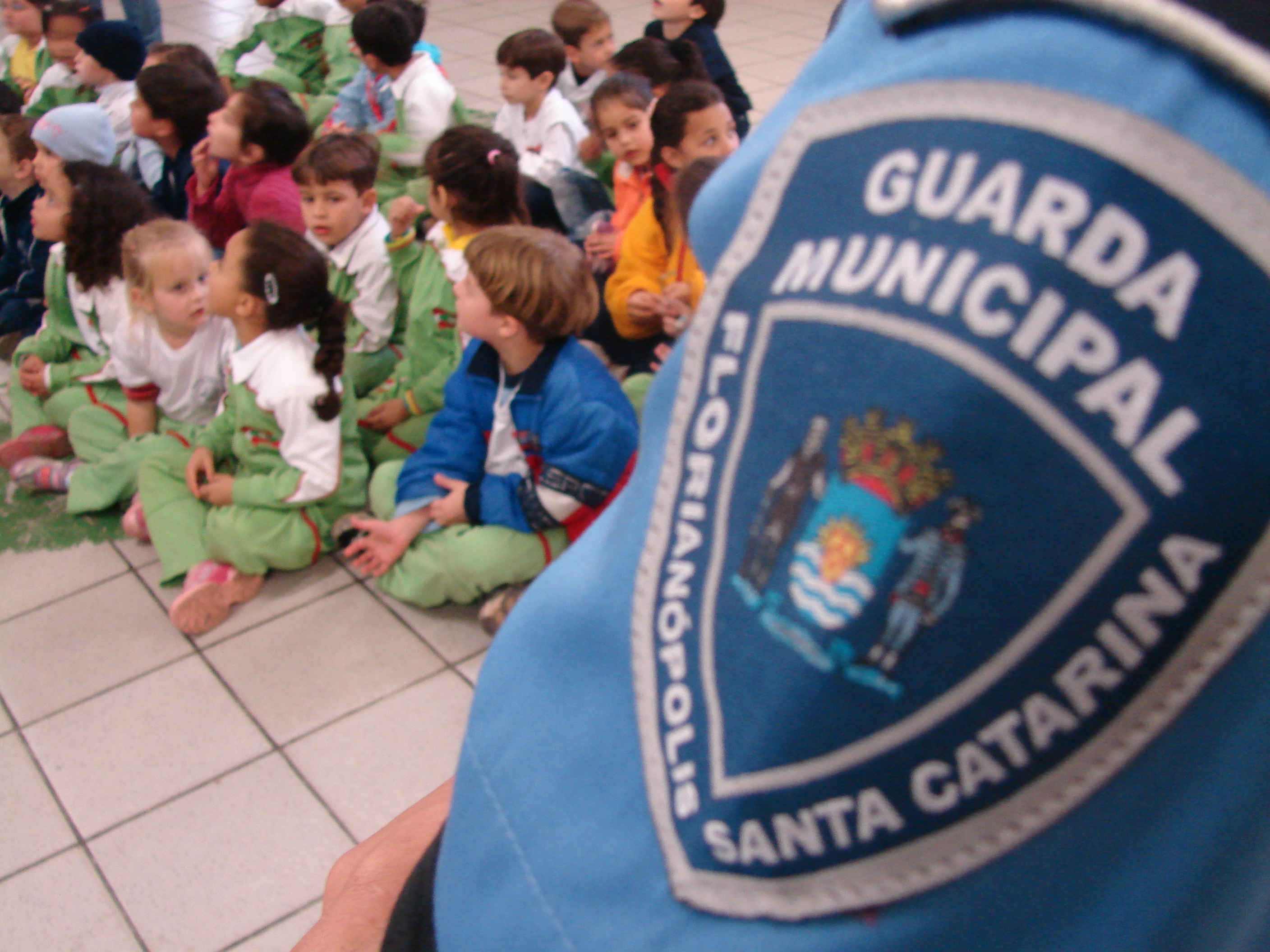 Education for transit.